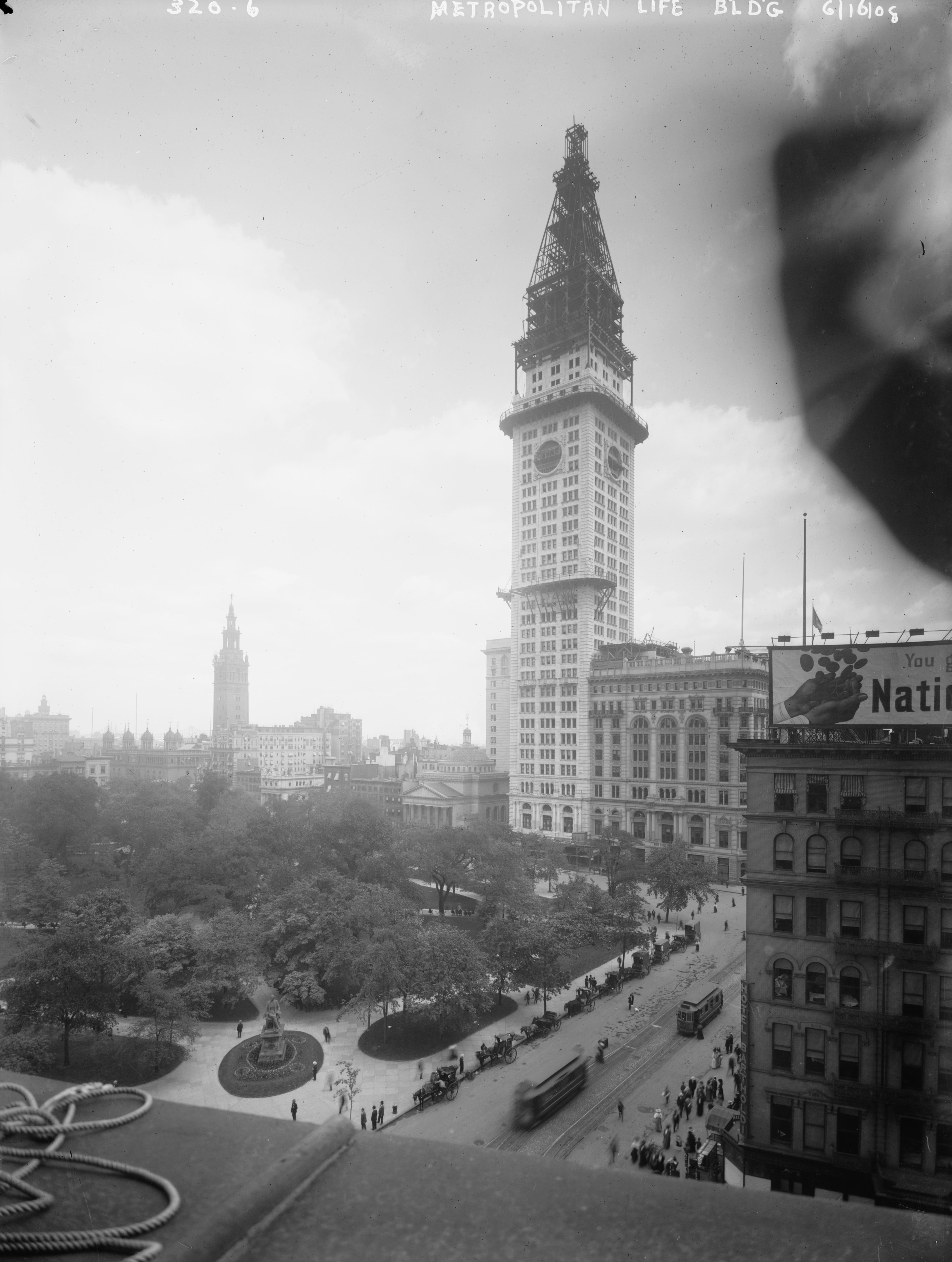 Metropolitan Life Insur. Co. Tower